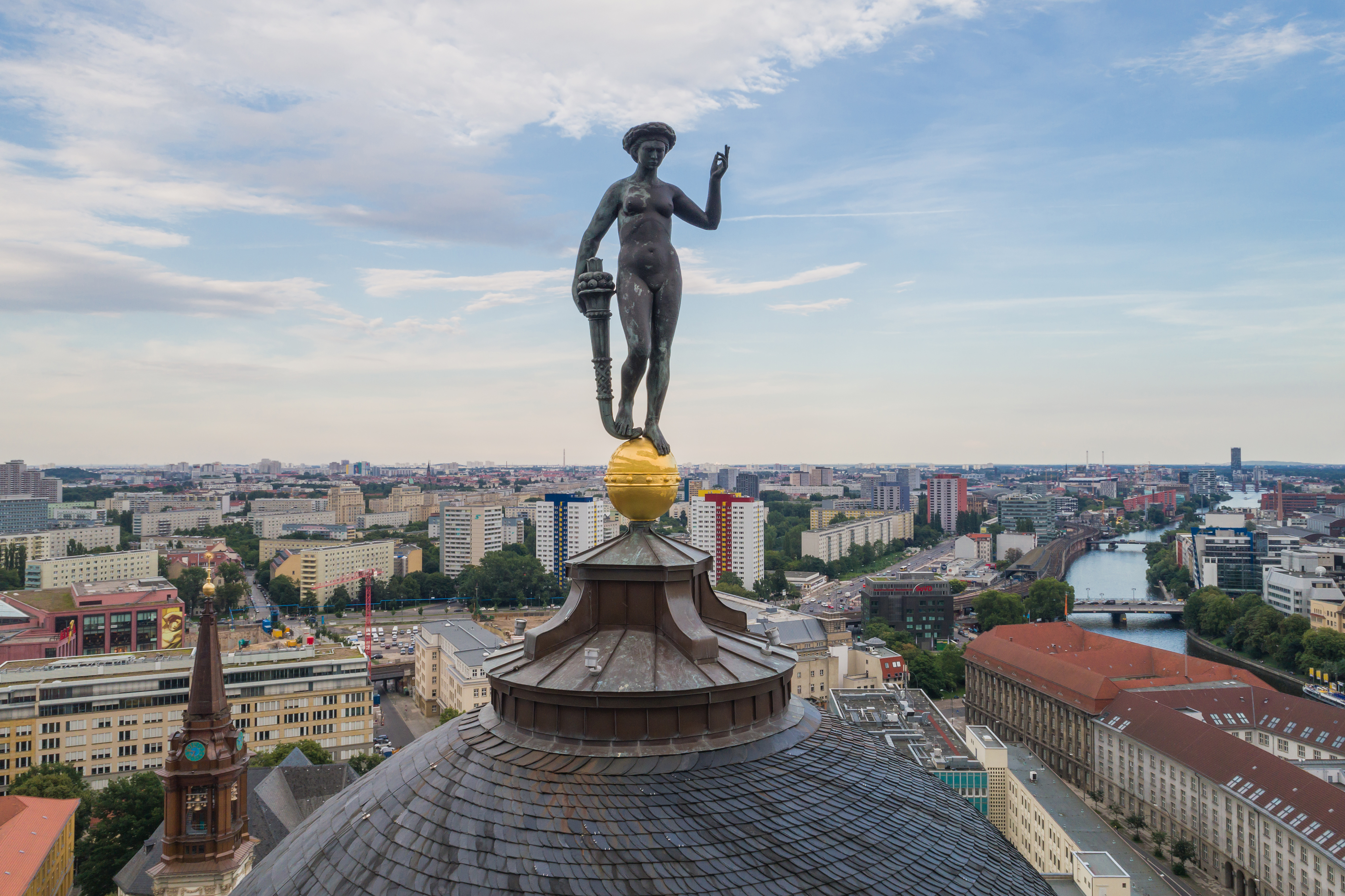 Details of Old town hall in Berlin (Germany)